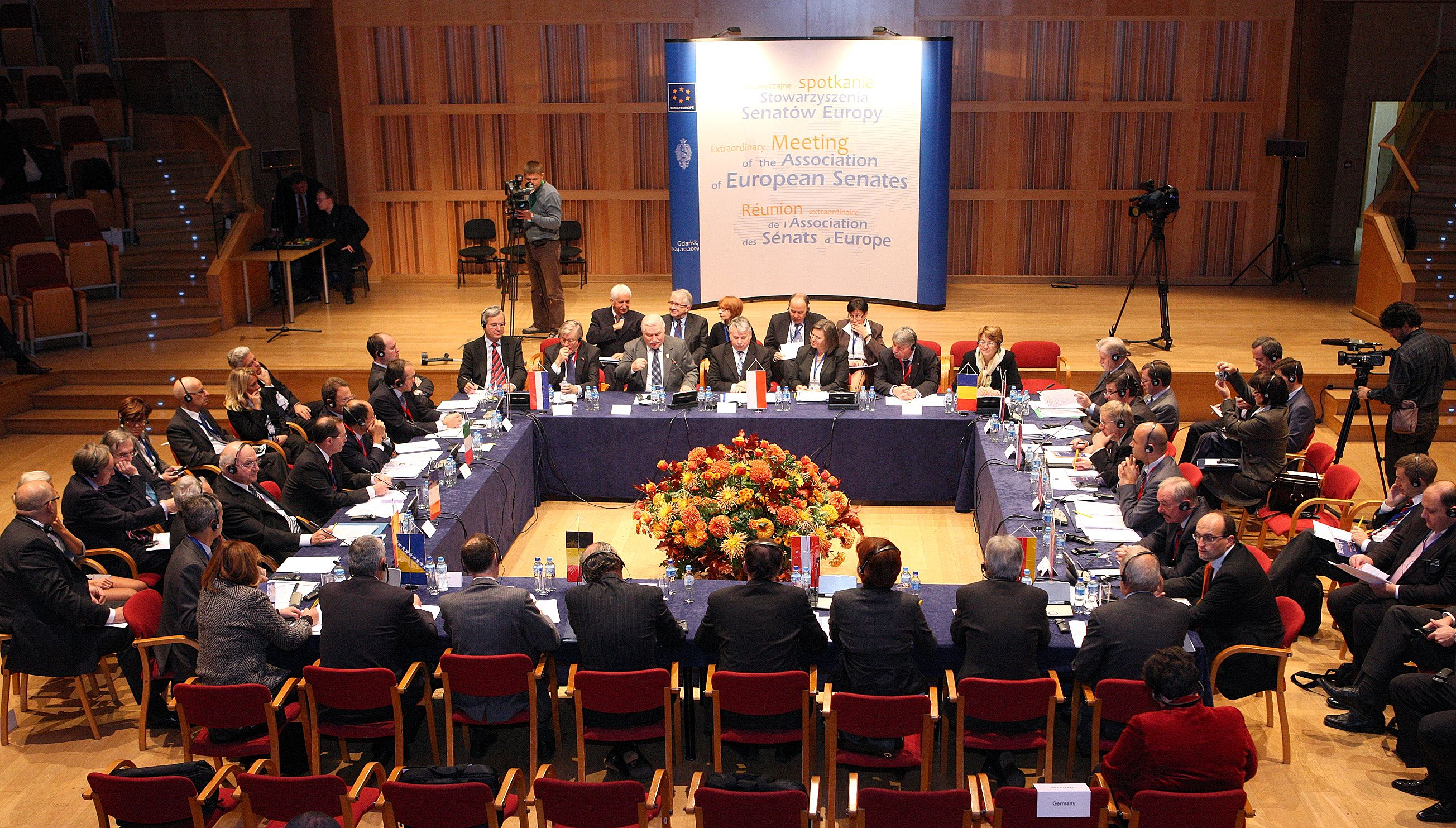 Extraordinary meeting of the Association of European Senates in Gdańsk